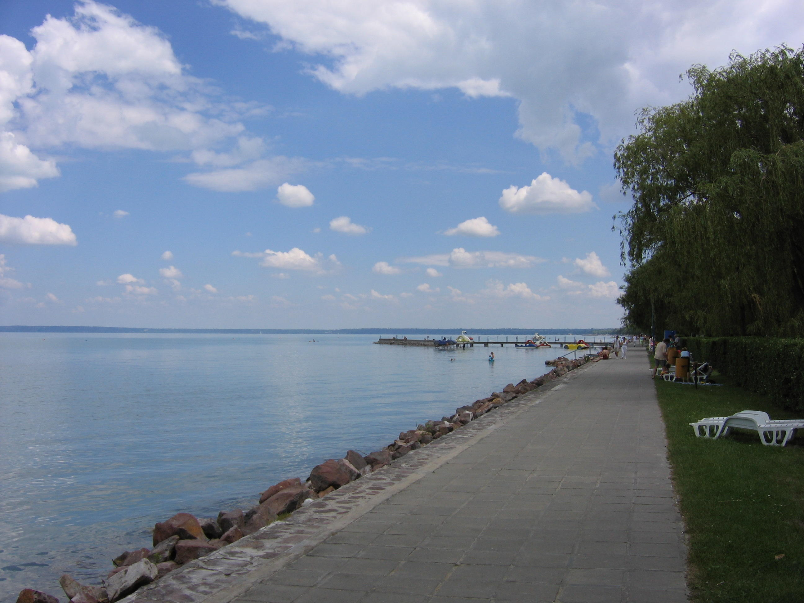 Lake Balaton